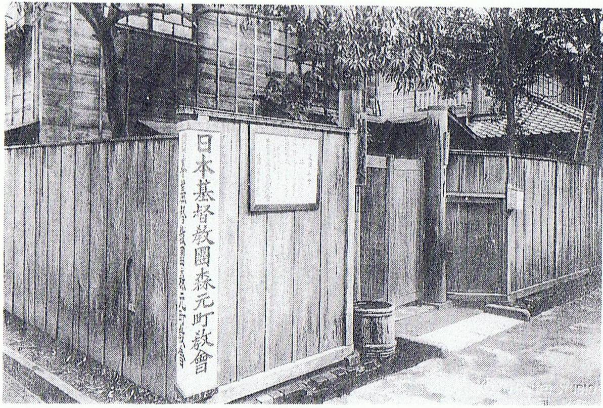 Morimoto machi Church 1942